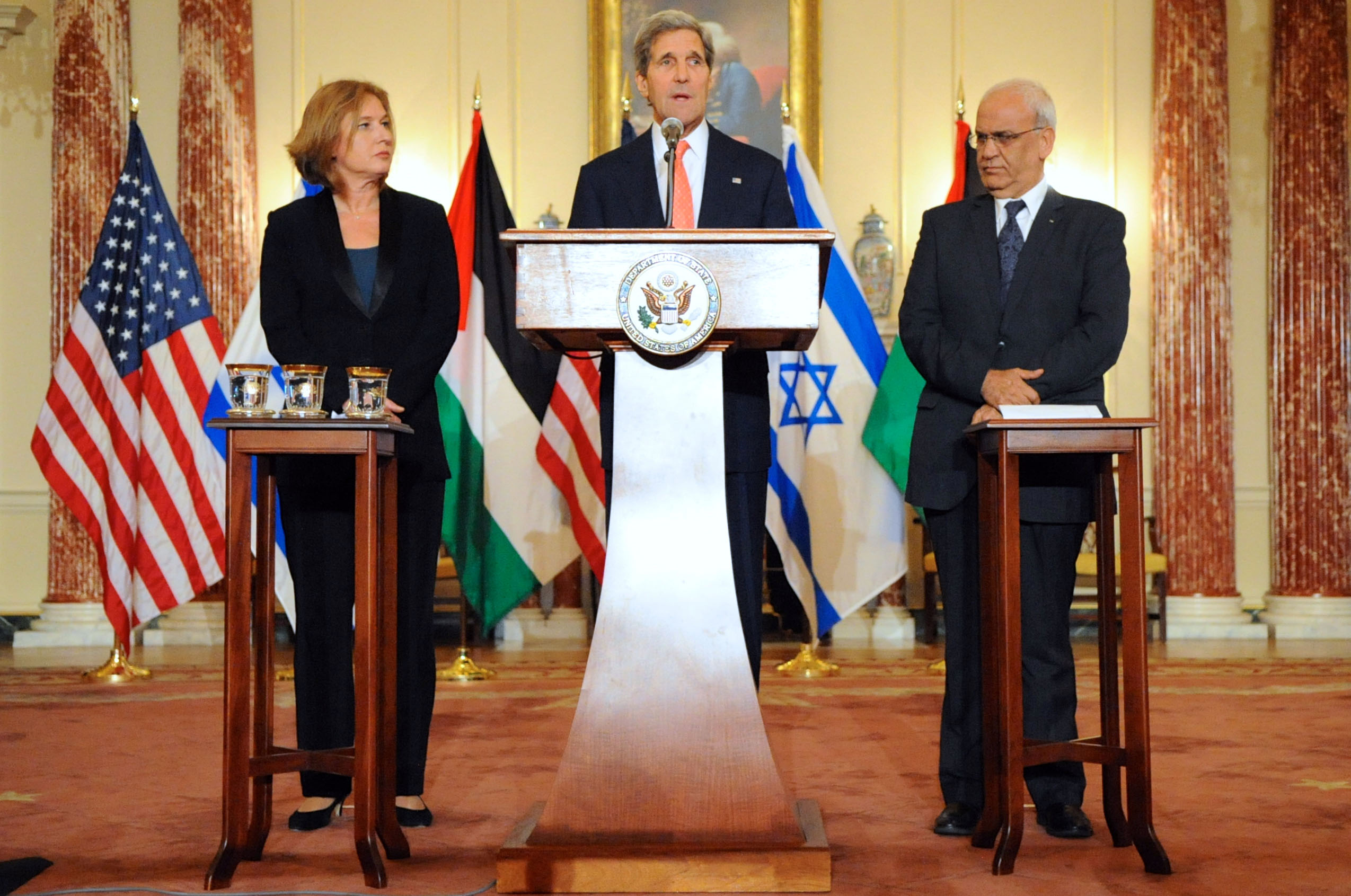 U.S. Secretary of State John Kerry, Israeli Justice Minister Tzipi Livni, and Palestinian Chief Negotiator Saeb Erekat address reporters on the Middle East Peace Process Talks at the U.S. Department of State in Washington, D.C., on July 30, 2013. [State Department photo/ Public Domain]